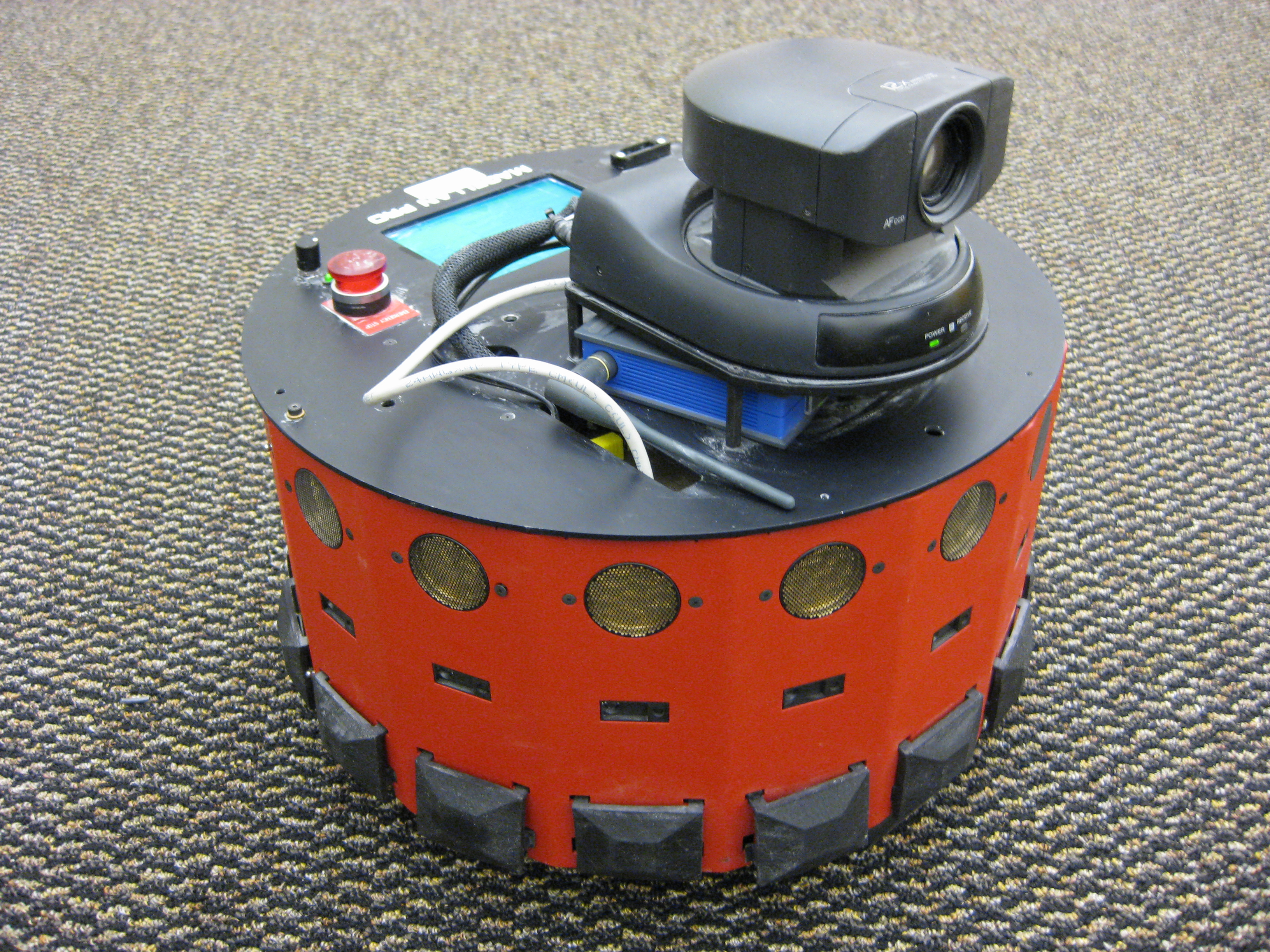 An iRobot Magellan Pro Robot at the Georgia Institute of Technology.